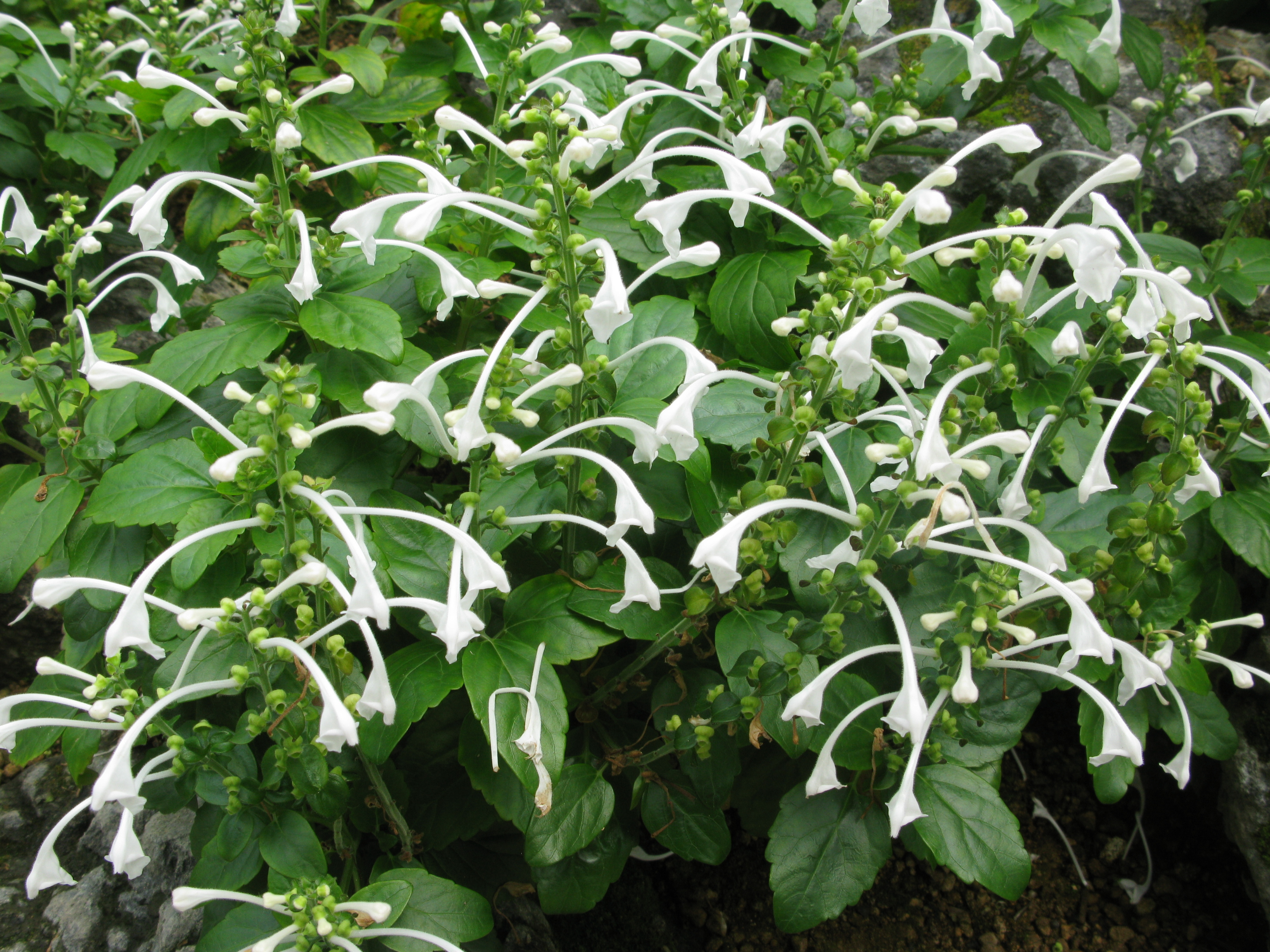 Scutellaria longituba, Shinjuku Gyoen National Garden, greenhouse, Tokyo, Japan